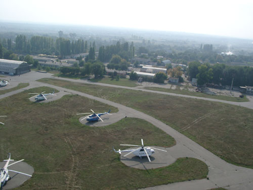 Helicopters in Kremenchuk airport, Ukraine